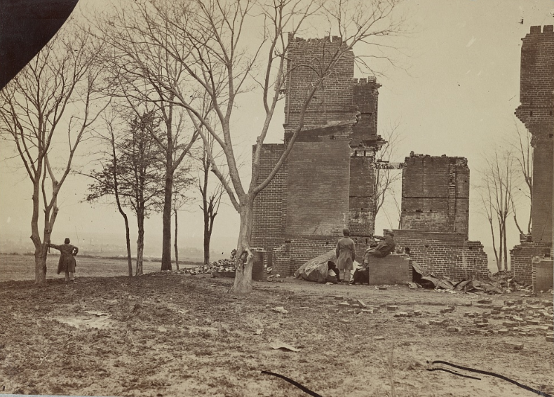 Ruins of Phillips House, near Falmouth, Va. [photographed between 1861 and 1865, printed between 1880 and 1889]